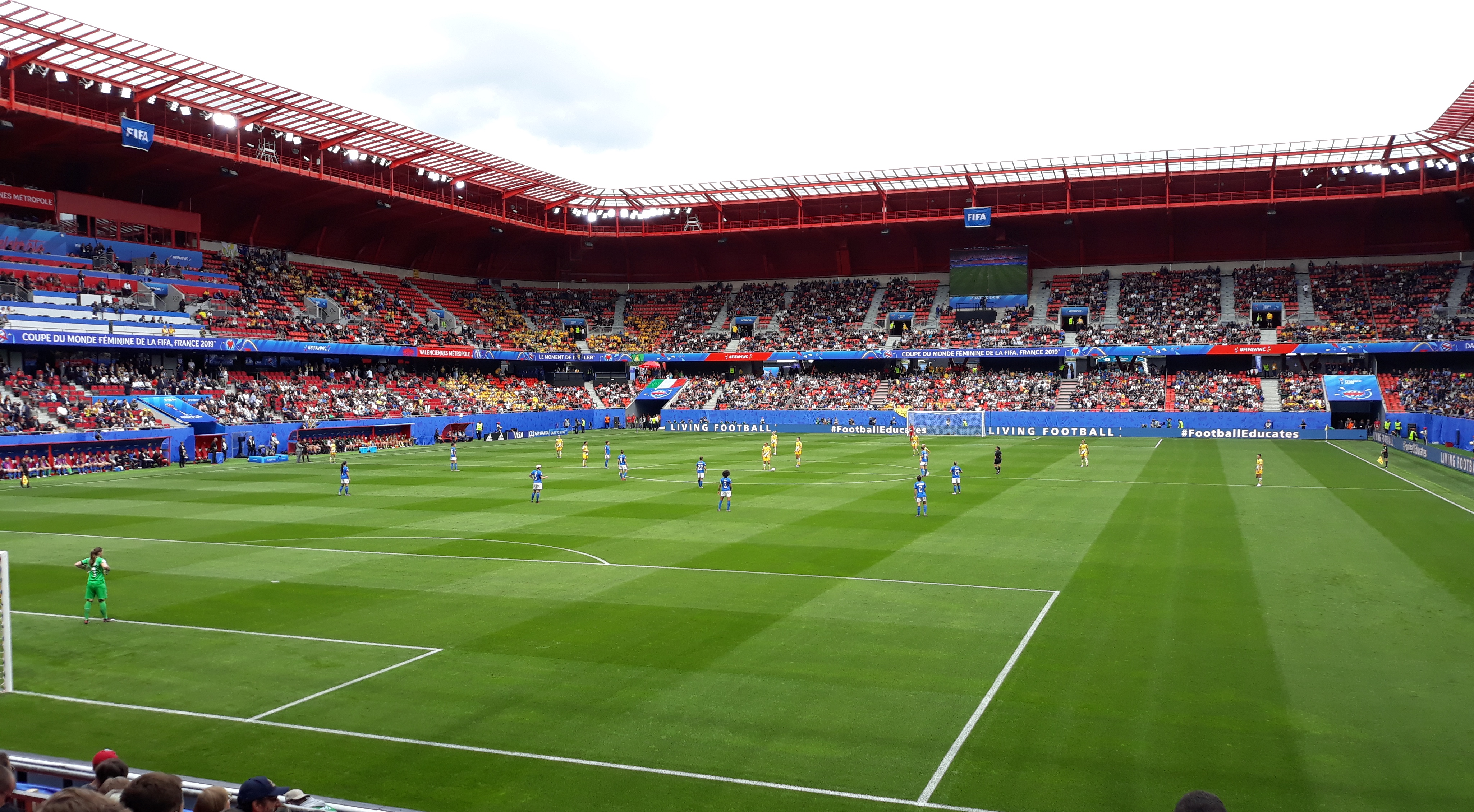 Australia vs Italy (Women World Cup France 2019 Valenciennes).jpg